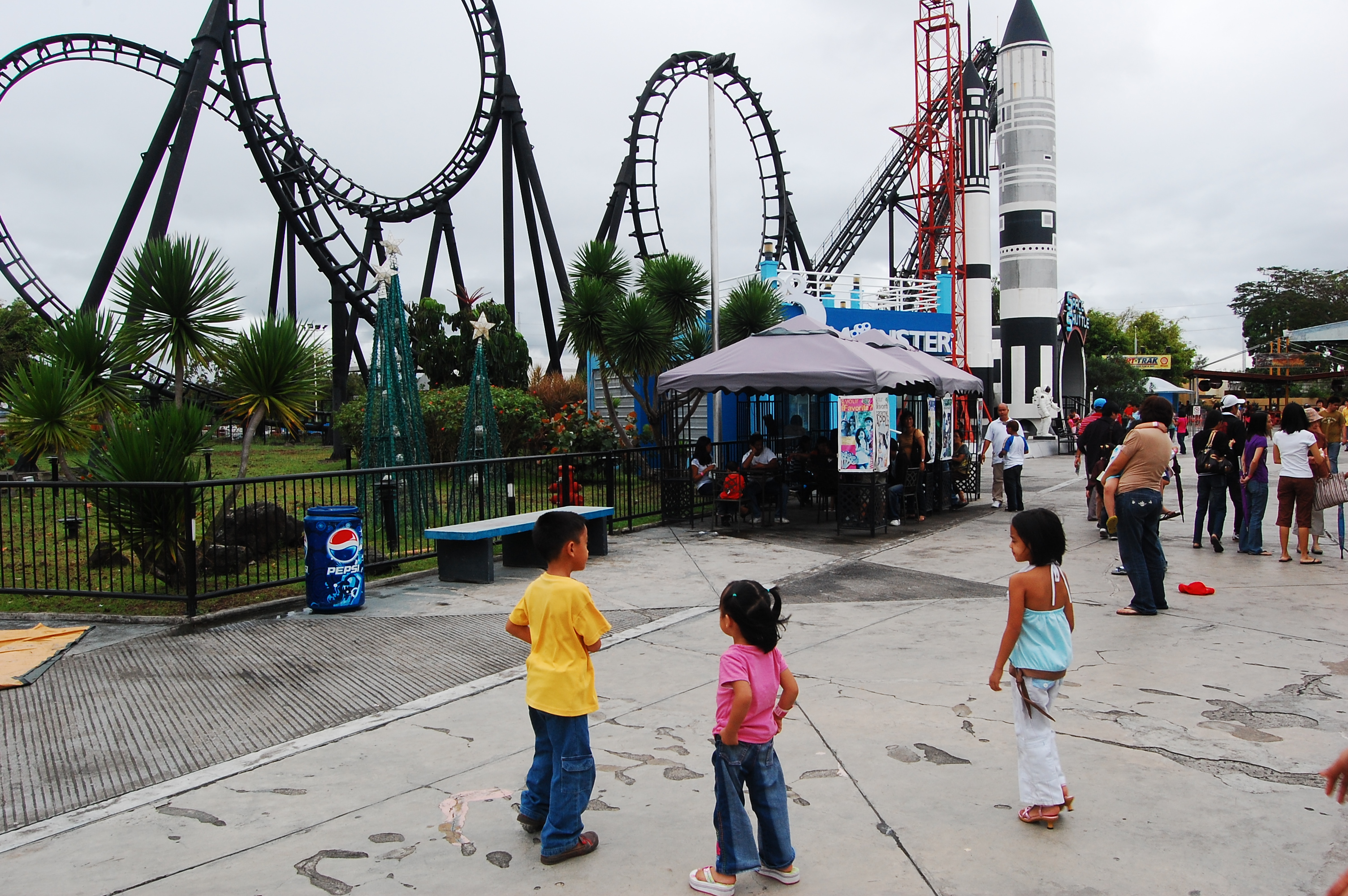 Enchanted Kingdom